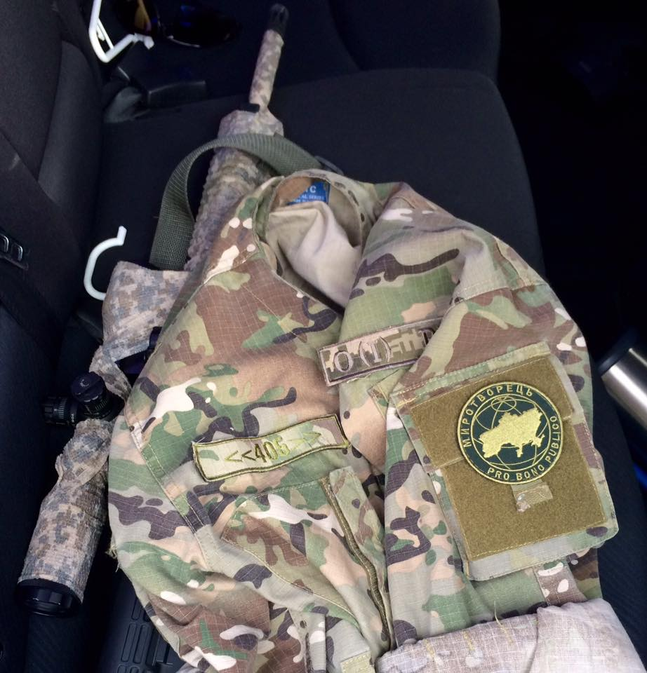 Coat of "Myrotvorets" staff member.